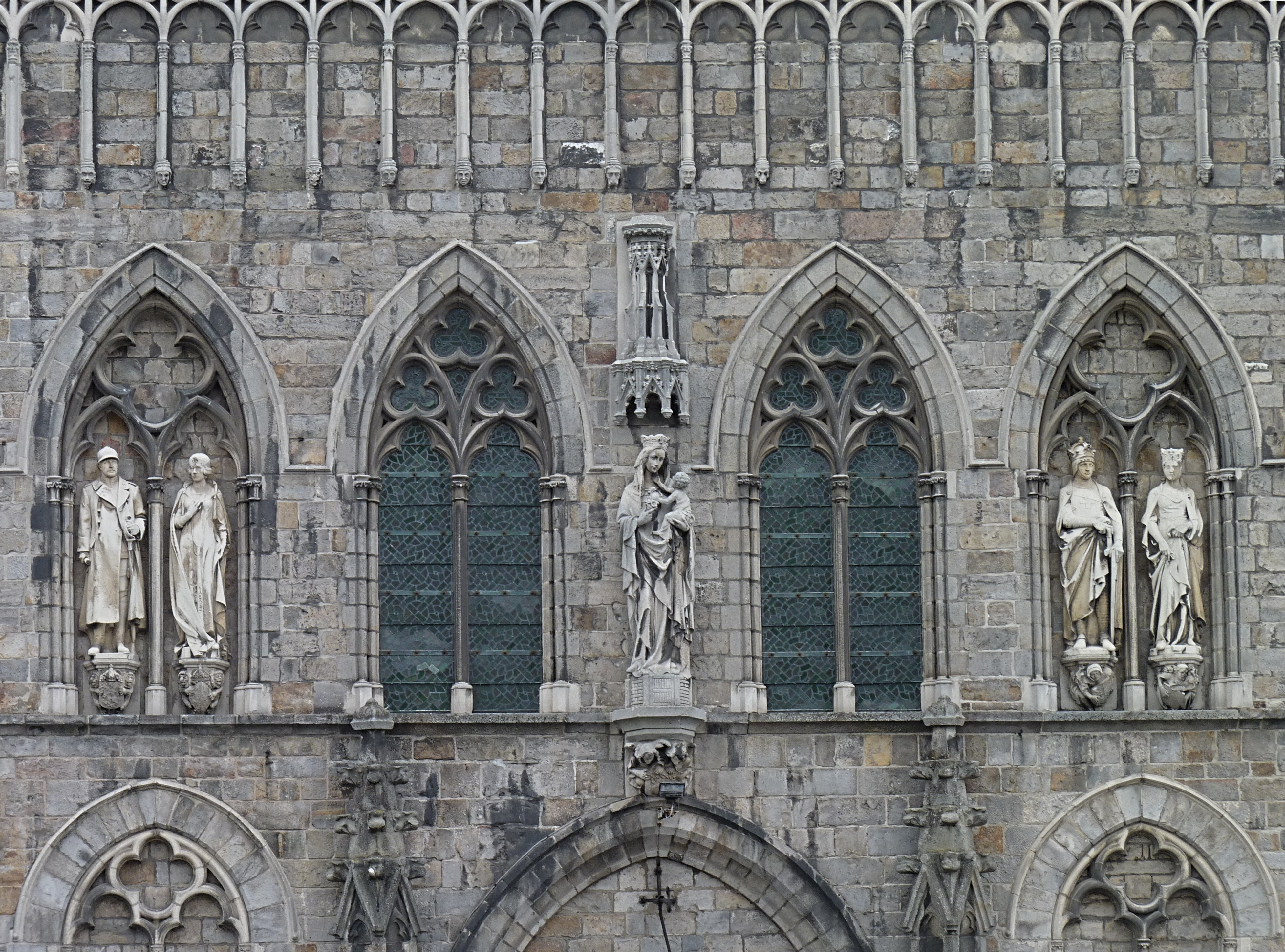 Cloth hall of Ieper, Belgium, (detail of the facade).